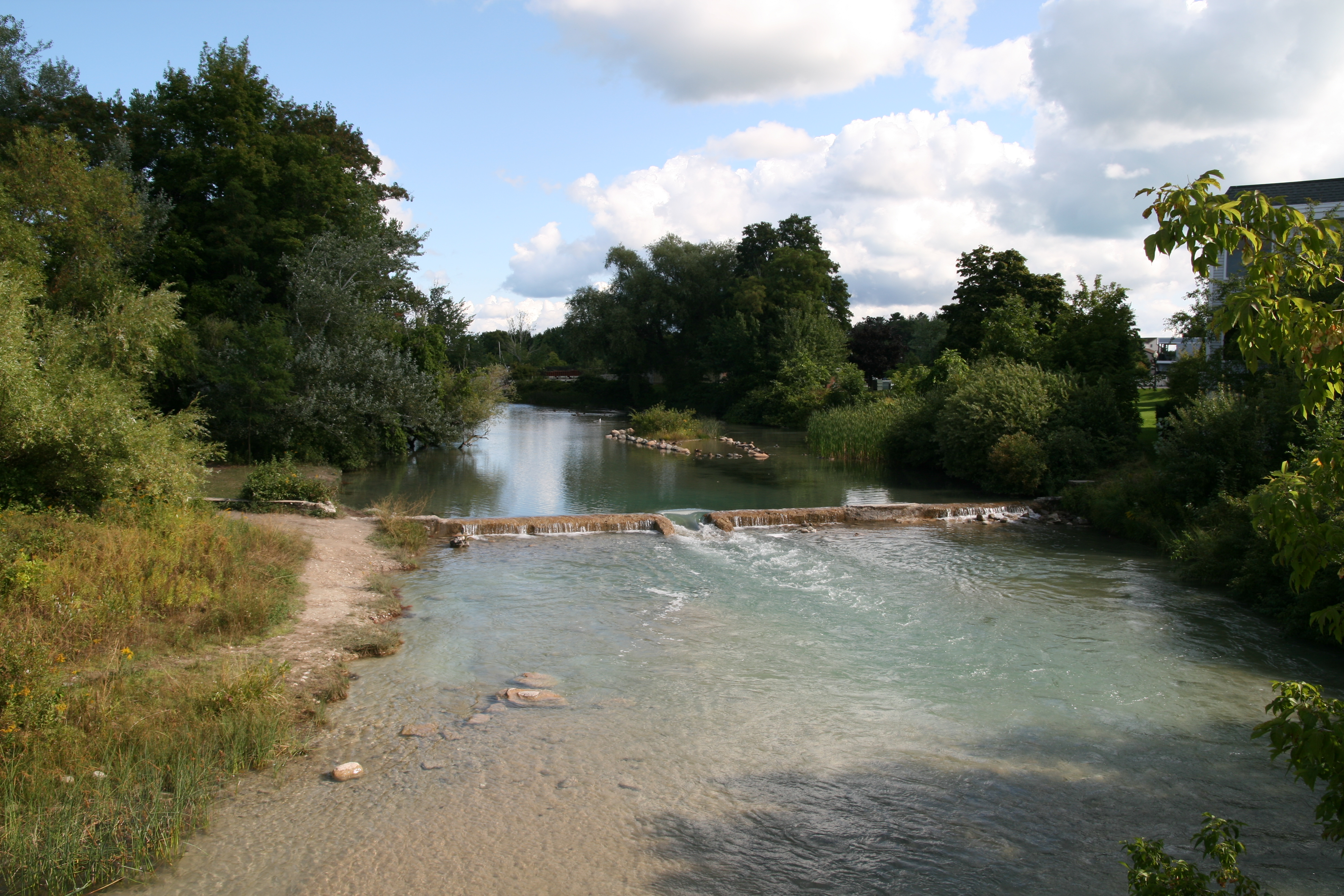 Parts of Elk River flowing from Elk Lake to Grand Traverse Bay, Michigan.